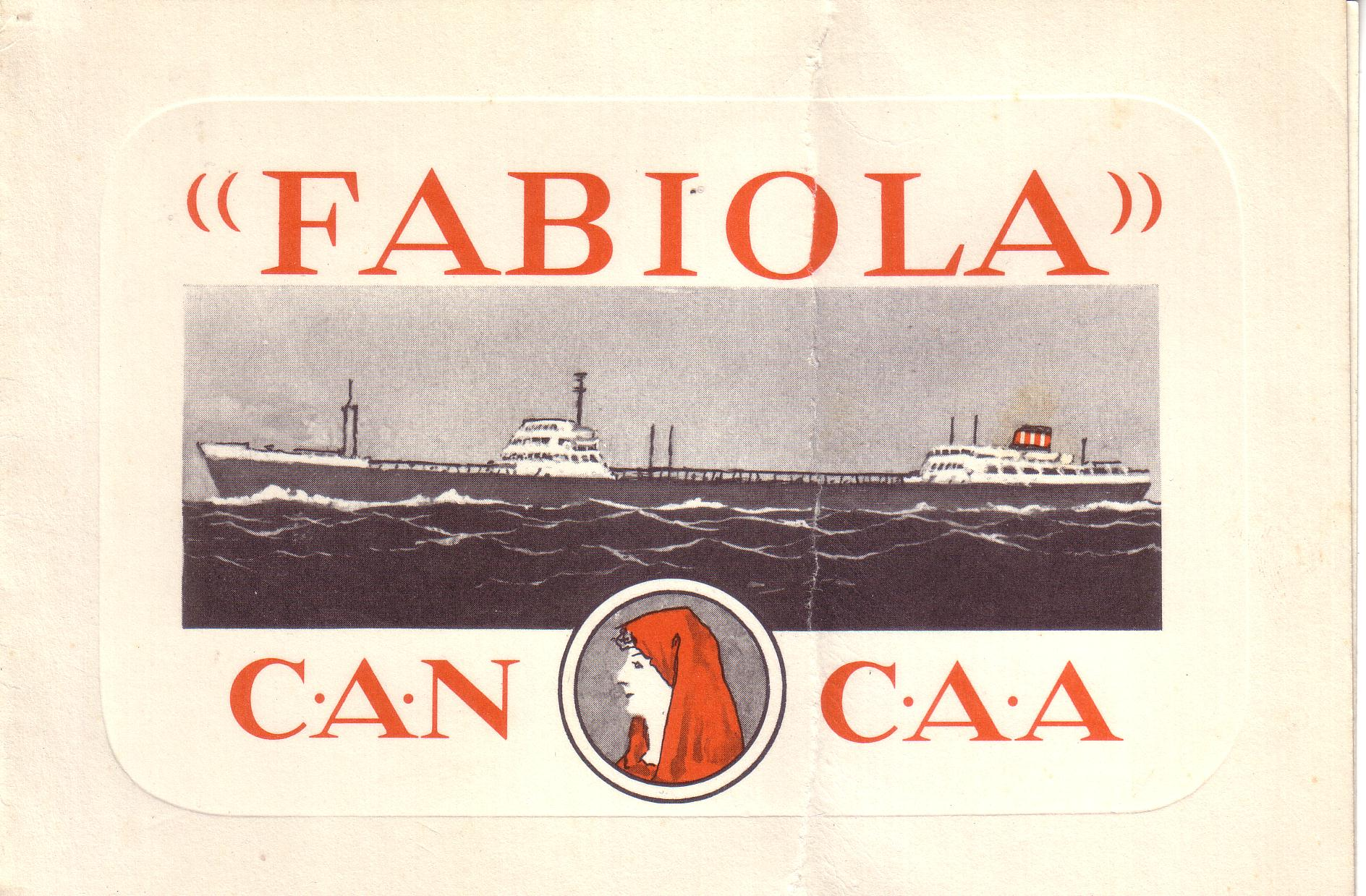 The former oil tanker "Fabiola"